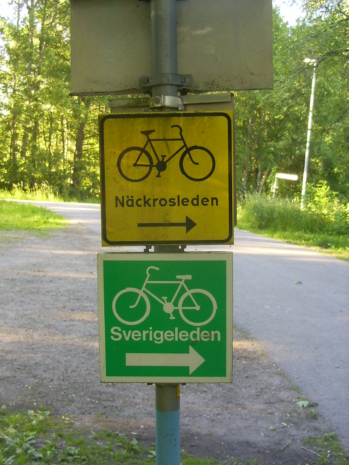 Signs of Sverigeleden and Näckrosleden near Katrineholm